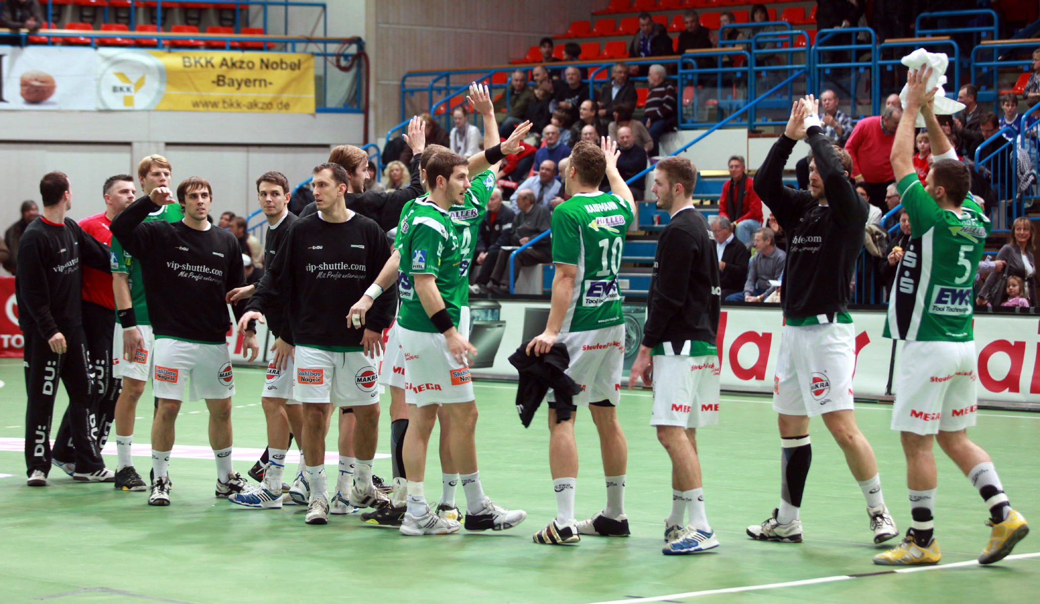 The German handball team Frisch Auf Göppingen, on December 22nd, 2010 prior the Bundesliga match TV Großwallstadt – Frisch Auf Göppingen. The game took place in the f.a.n. frankenstolz arena of Aschaffenburg